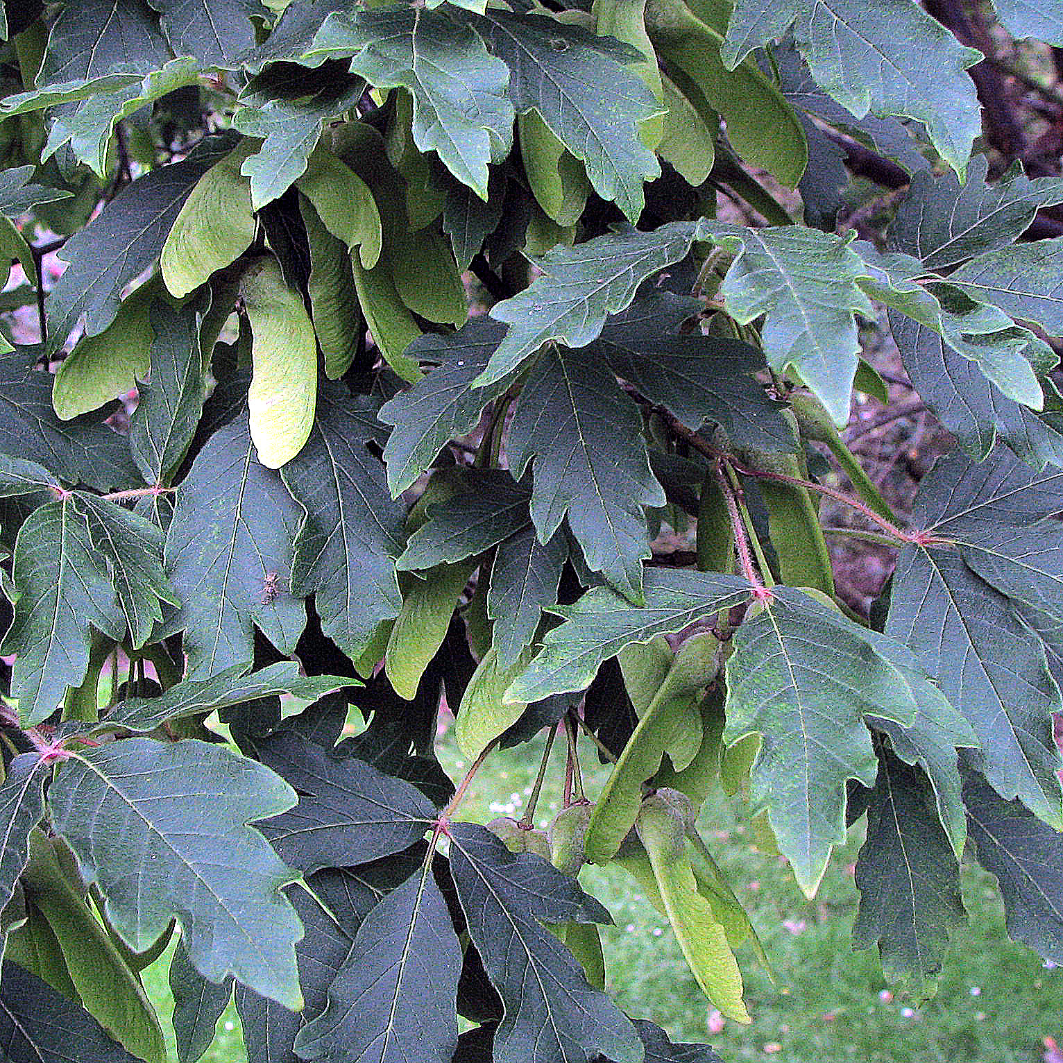 Acer griseum leaves and fruits Kew